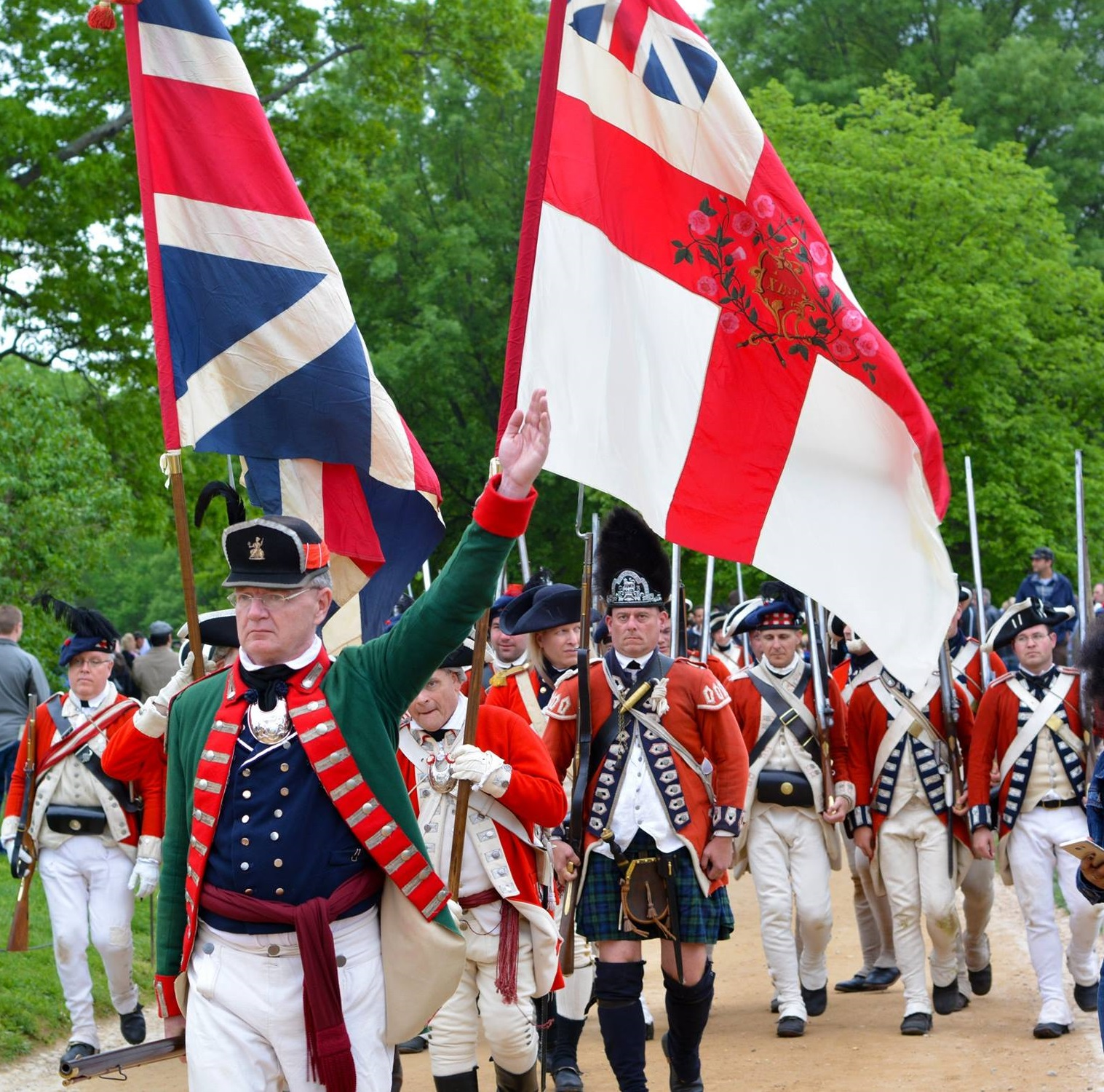 British Officer with gorget and shako hat with Grenadiers and Light Infantry on parade